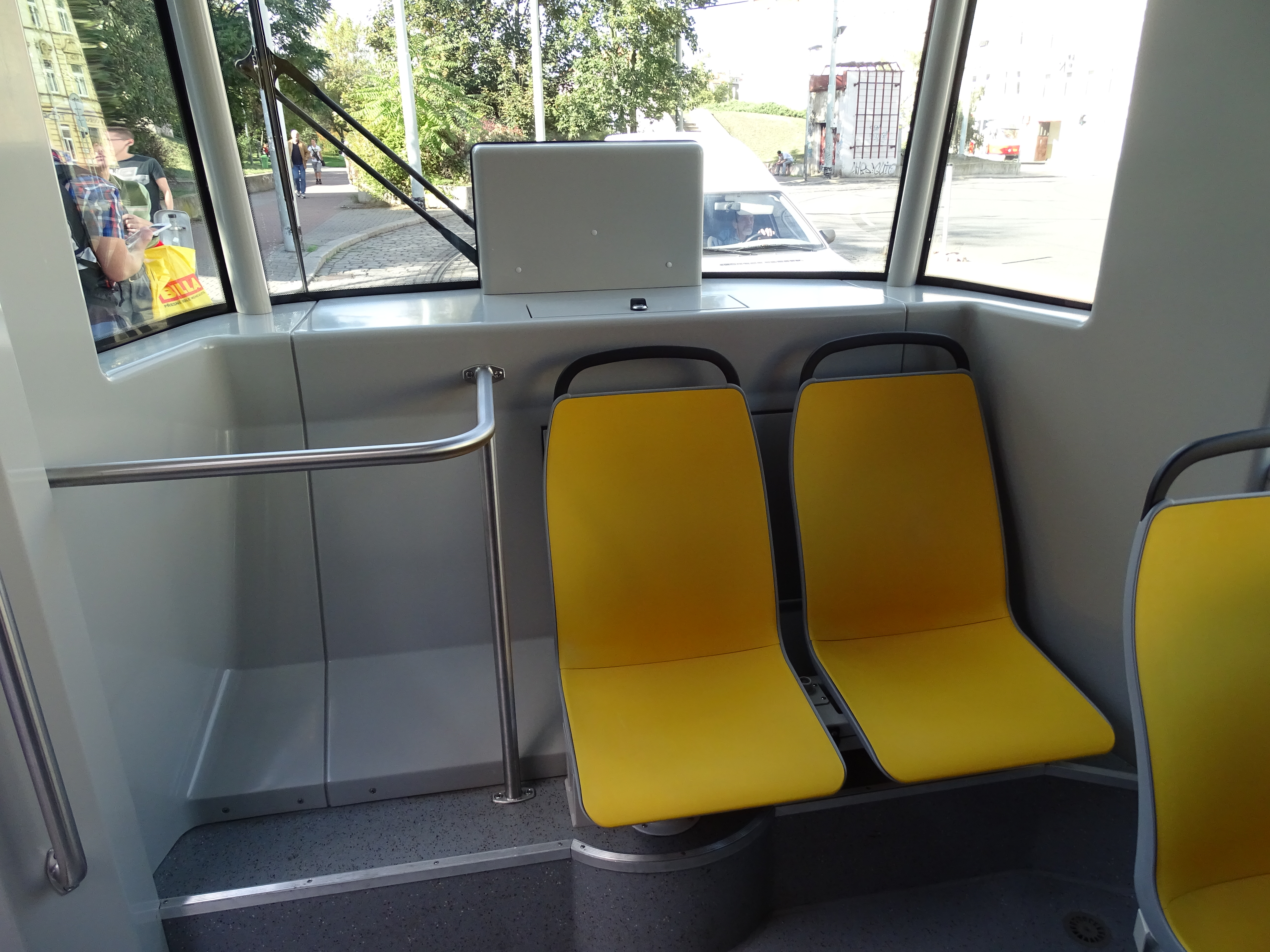 Prague-Smíchov, Czech Republic. Tram loop Smíchovské nádraží, tram EVO1.